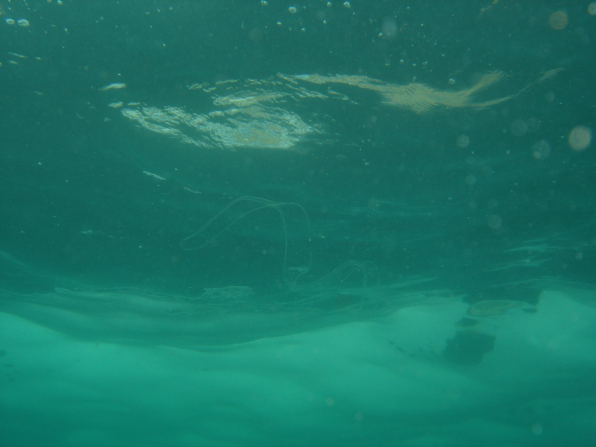 Ctenophore Venus girdle (Cestum veneris) at the dive site Rocky Bay on the east side of False Bay